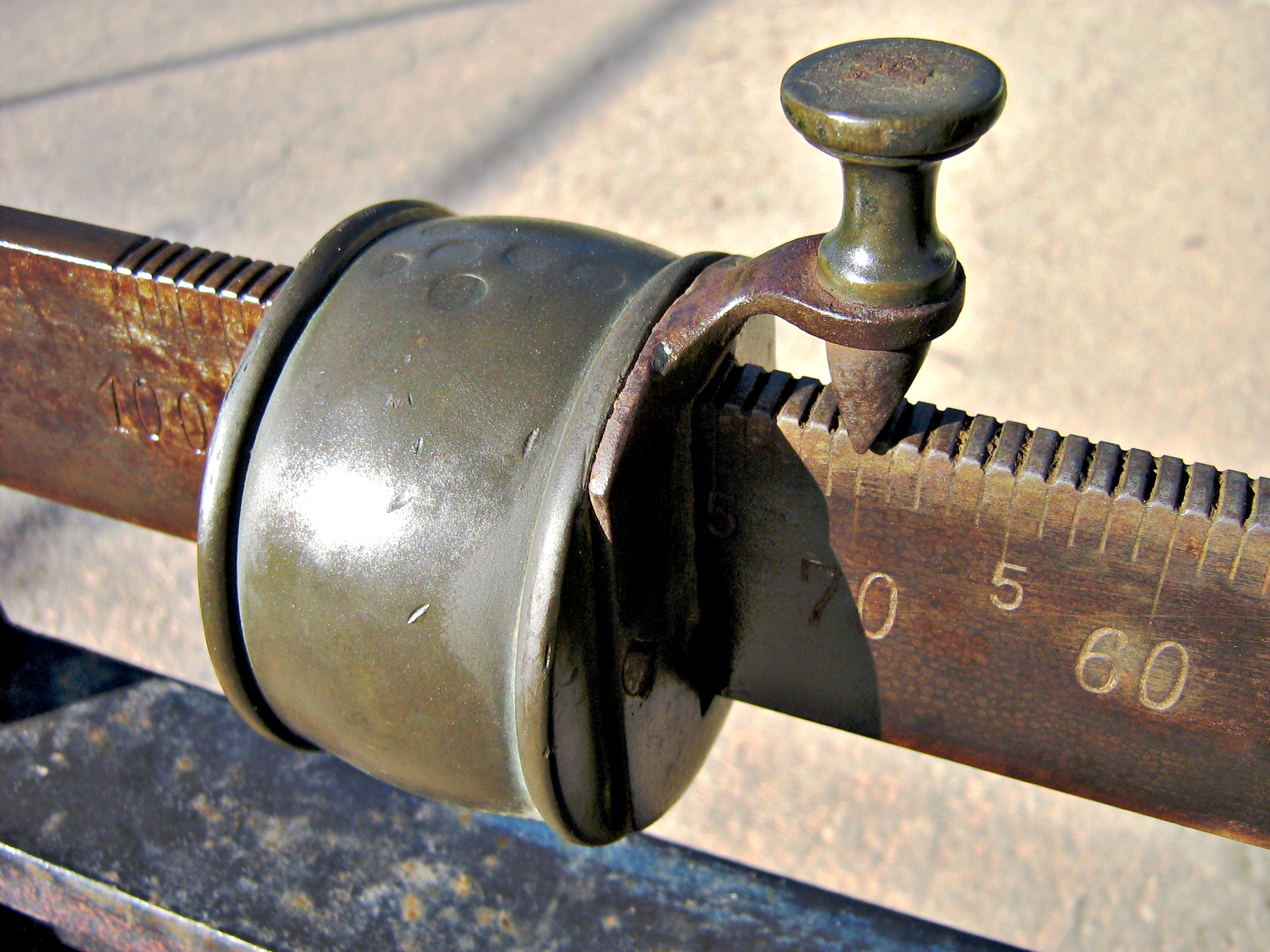 Libya. Weighing_scale. 2008.